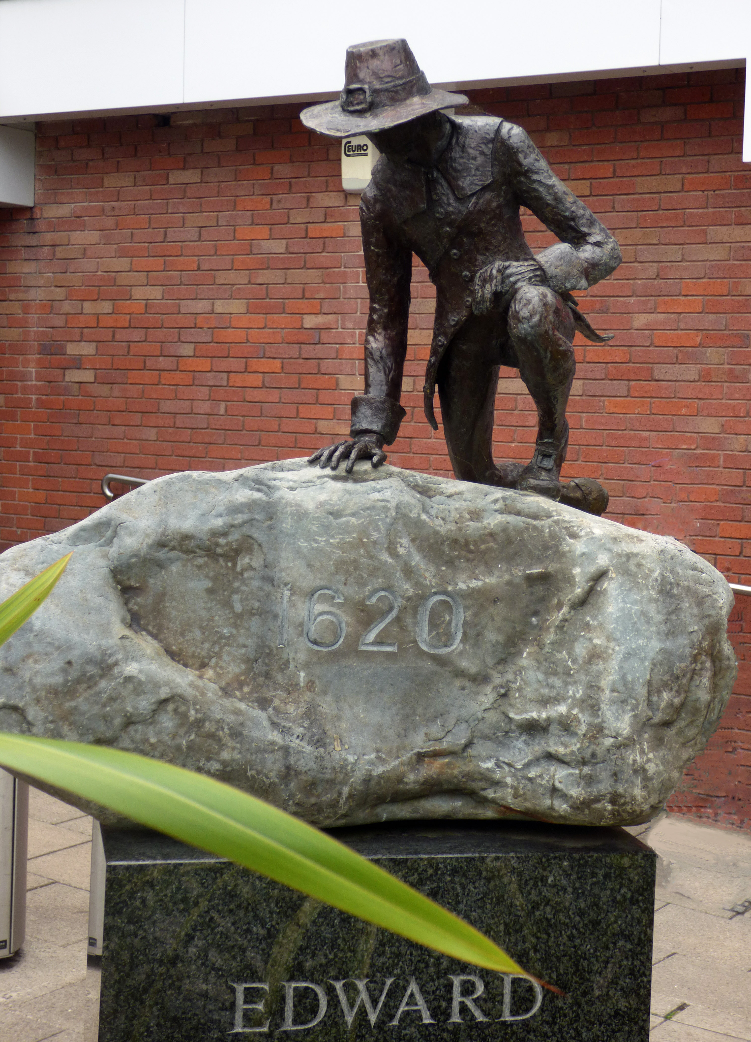 Edward Winslow - statue in St Andrew's Square, Droitwich Spa. St Andrew Square features a bronze statue of Edward Winslow of Droitwich. Born in 1595 in the town and baptised in St Peters Church, he was one of the founding fathers of America who sailed on the Mayfower in 1620 . He was governor there for many years. The statue was sculpted by Sara Ingleby-Mackenzie. Public art in Droitwich Spa